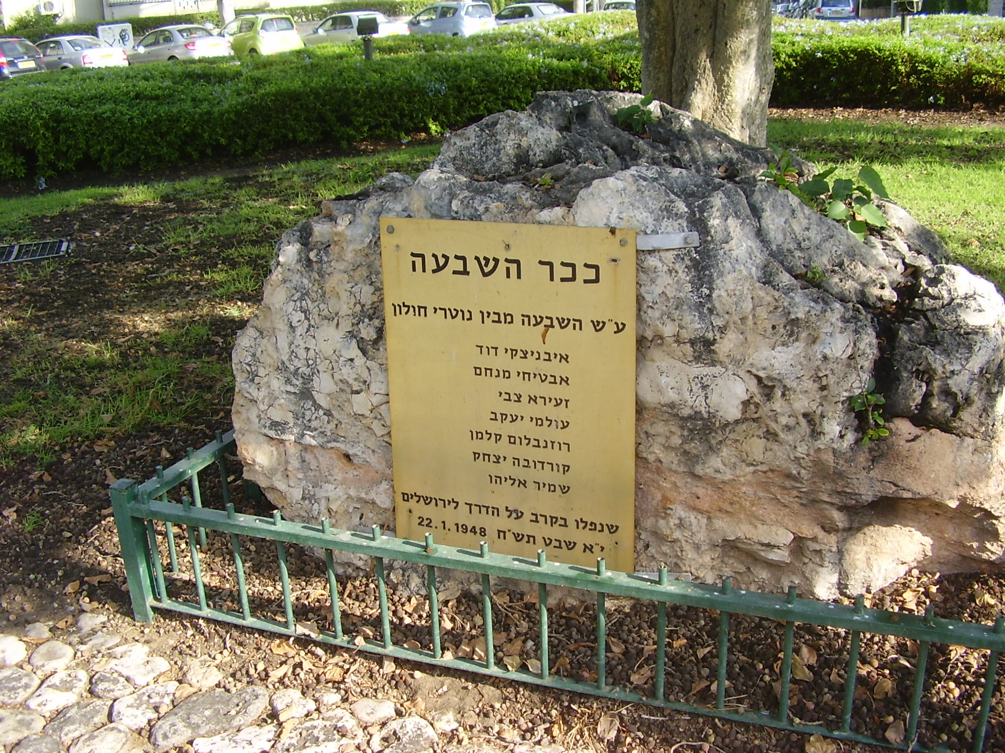 The Seven Square in Holon